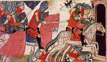 Battle of Benevento